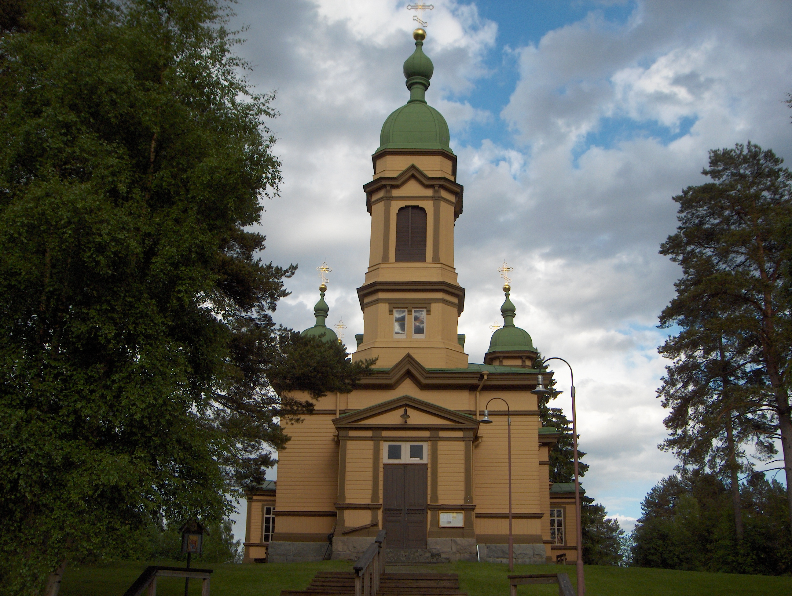 Church of the Holy Prophet Elias in Ilomantsi, Finland.